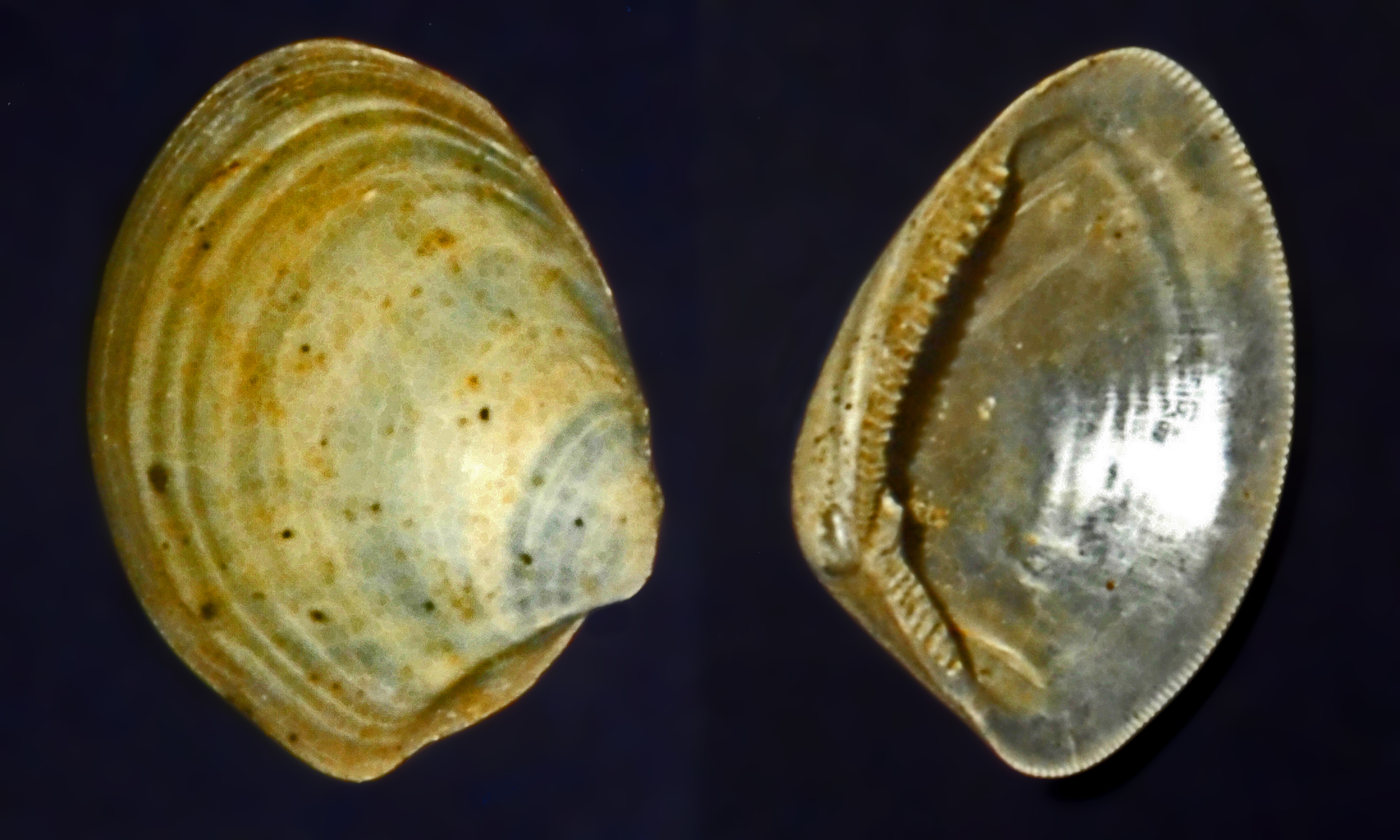 Fossil valves of Nucula piacentina from Pliocene of Italy, on display at the Museo Paleontologico, Asti